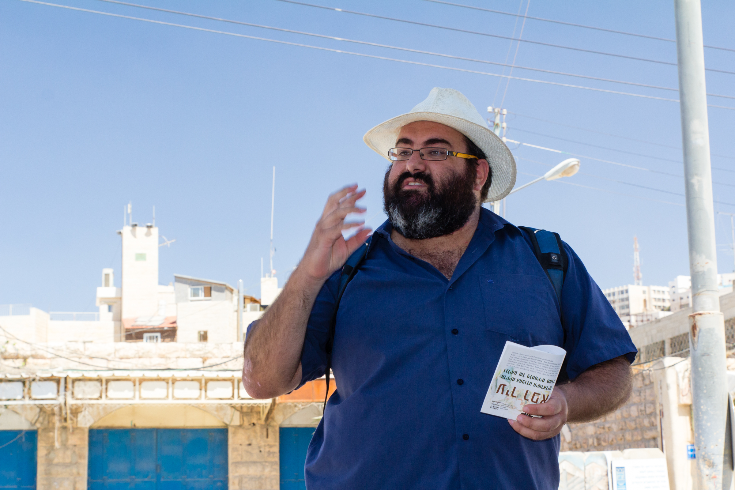 Breaking the Silence Hebron tour, August 28, 2015. Breaking the Silence activist Yehuda Shaul.